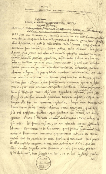 Handwritten page (circa 1604-05) from the manuscript of De jure praedae.